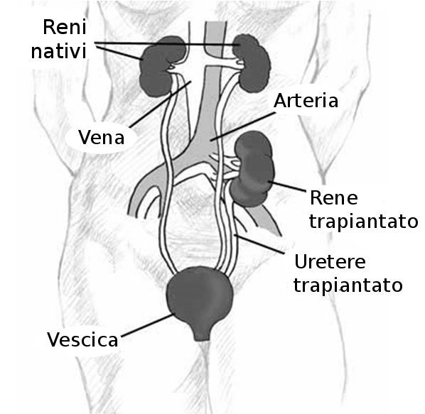 Kidney location after transplantation. Adapted from the original source to enlarge labels, and to fix a labelling error – "artery" and "vein" were transposed. See this discussion on the English Wikipedia.